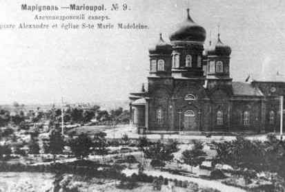 Mariupol old church